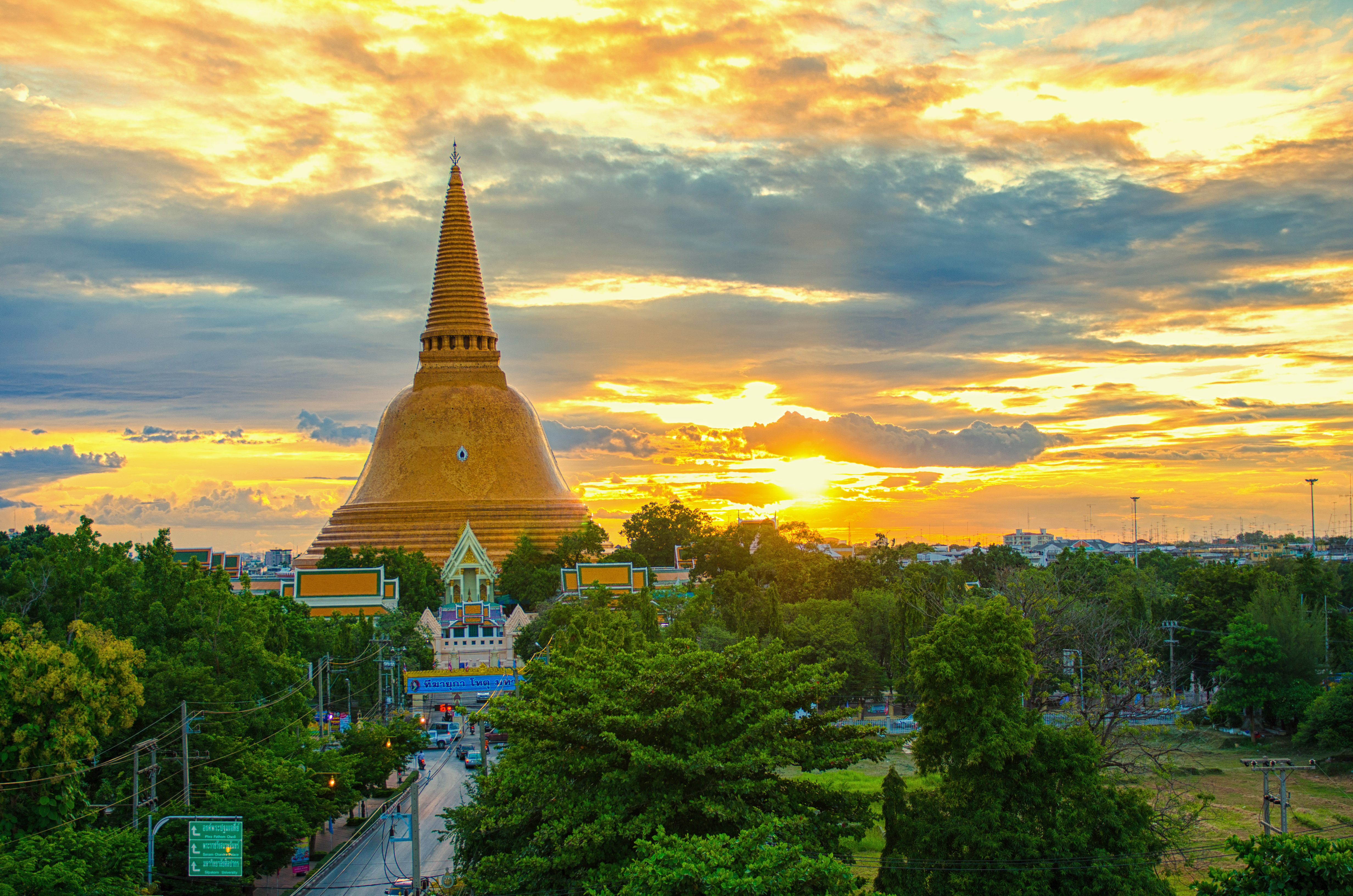 Phra Pathom Chedi before sunset